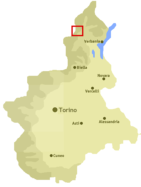 Position of the valley Valle Antrona